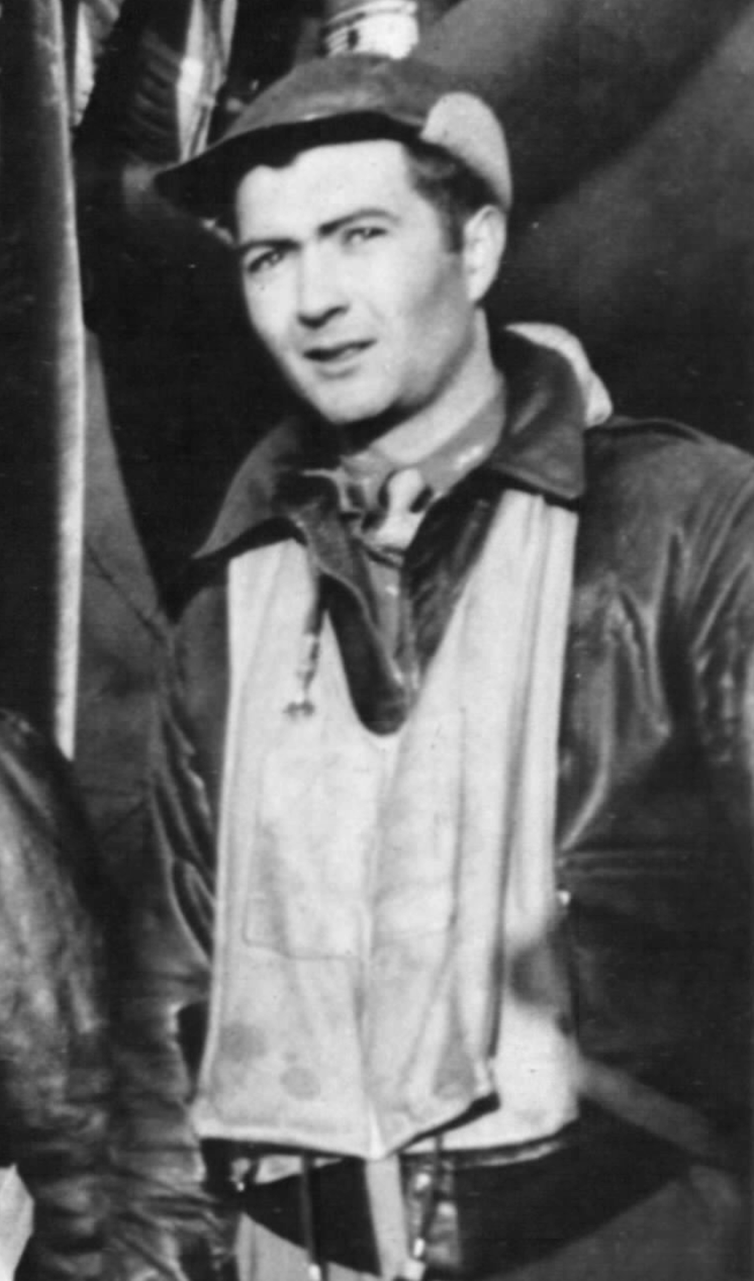 Photograph of Jack W. Mathis in his flight gear in England